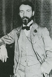 American art historian Bernard Berenson (1865–1959)